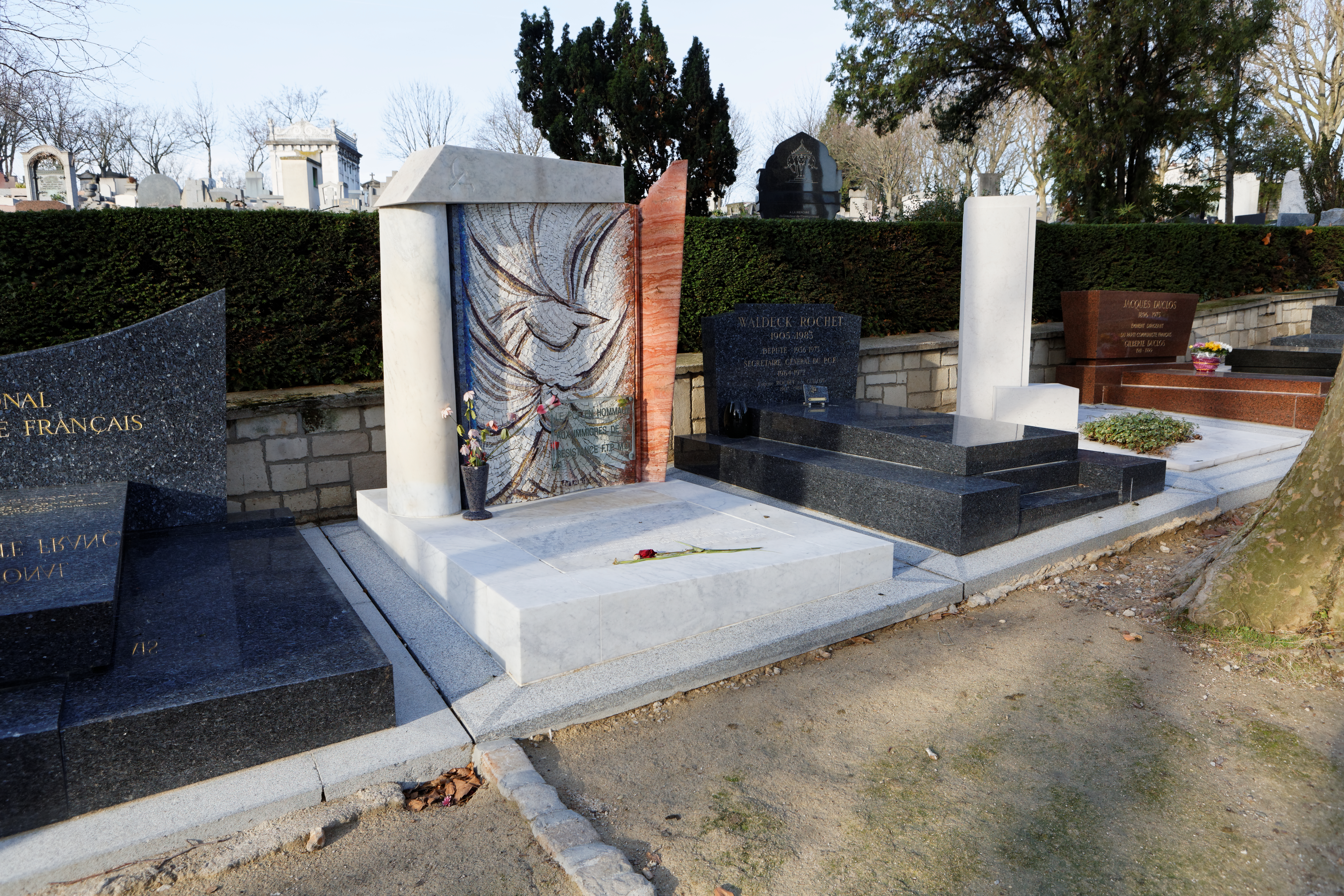 Tombstone in Père Lachaise Cemetery, in Paris.